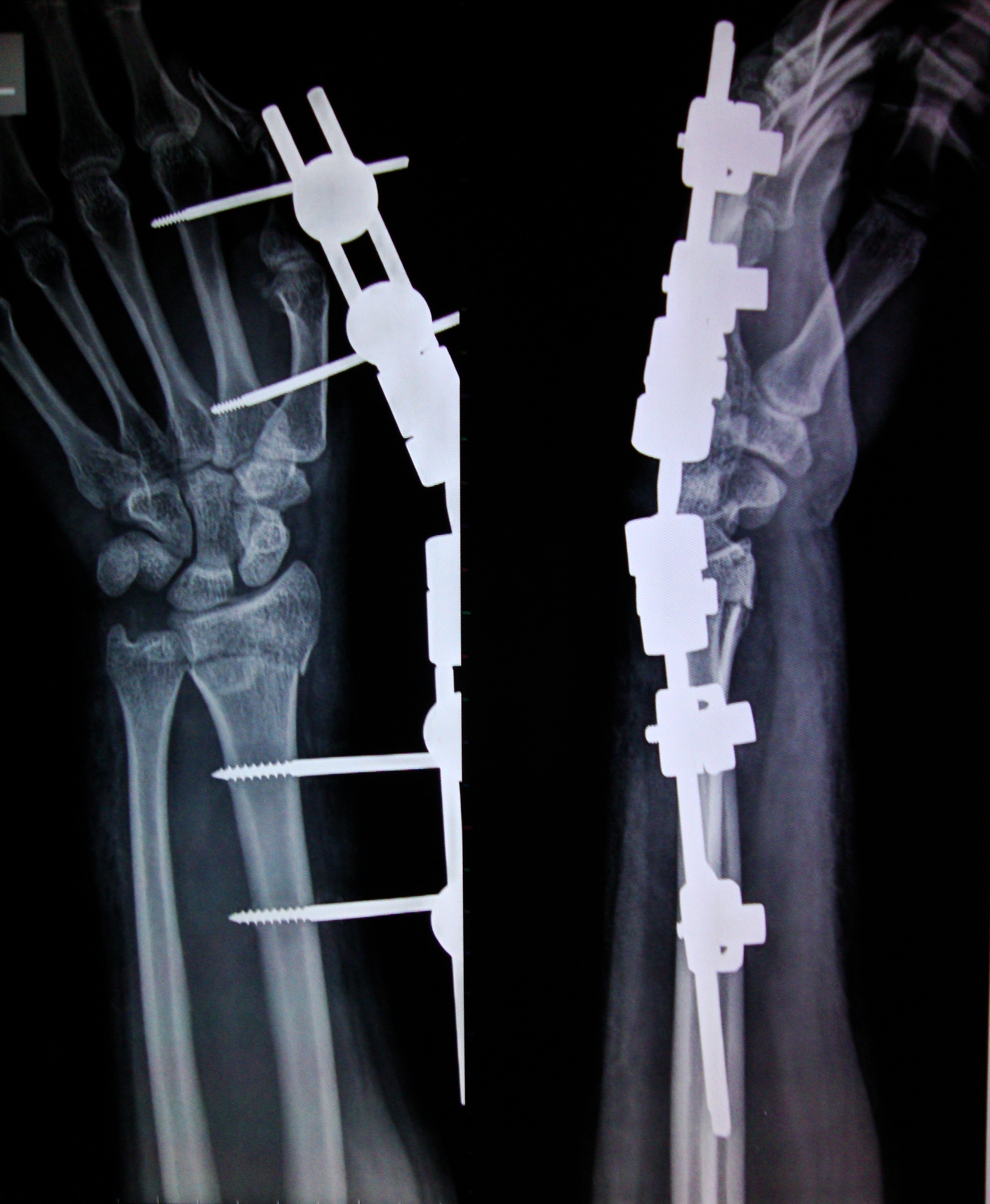 an X-ray image of an external fixator being used for reduction of a broken bone, in this case, a Colle's fracture.